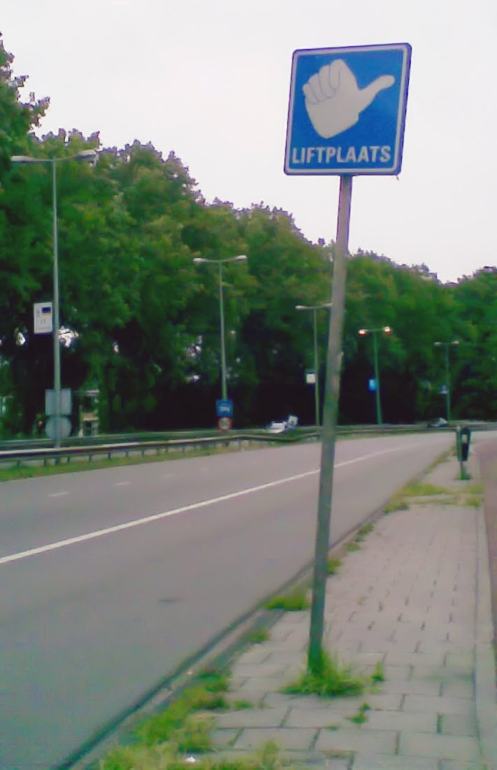 Traffic sign indicating a good place for hitchhikers to get a lift, near Amsterdam Amstel railway station